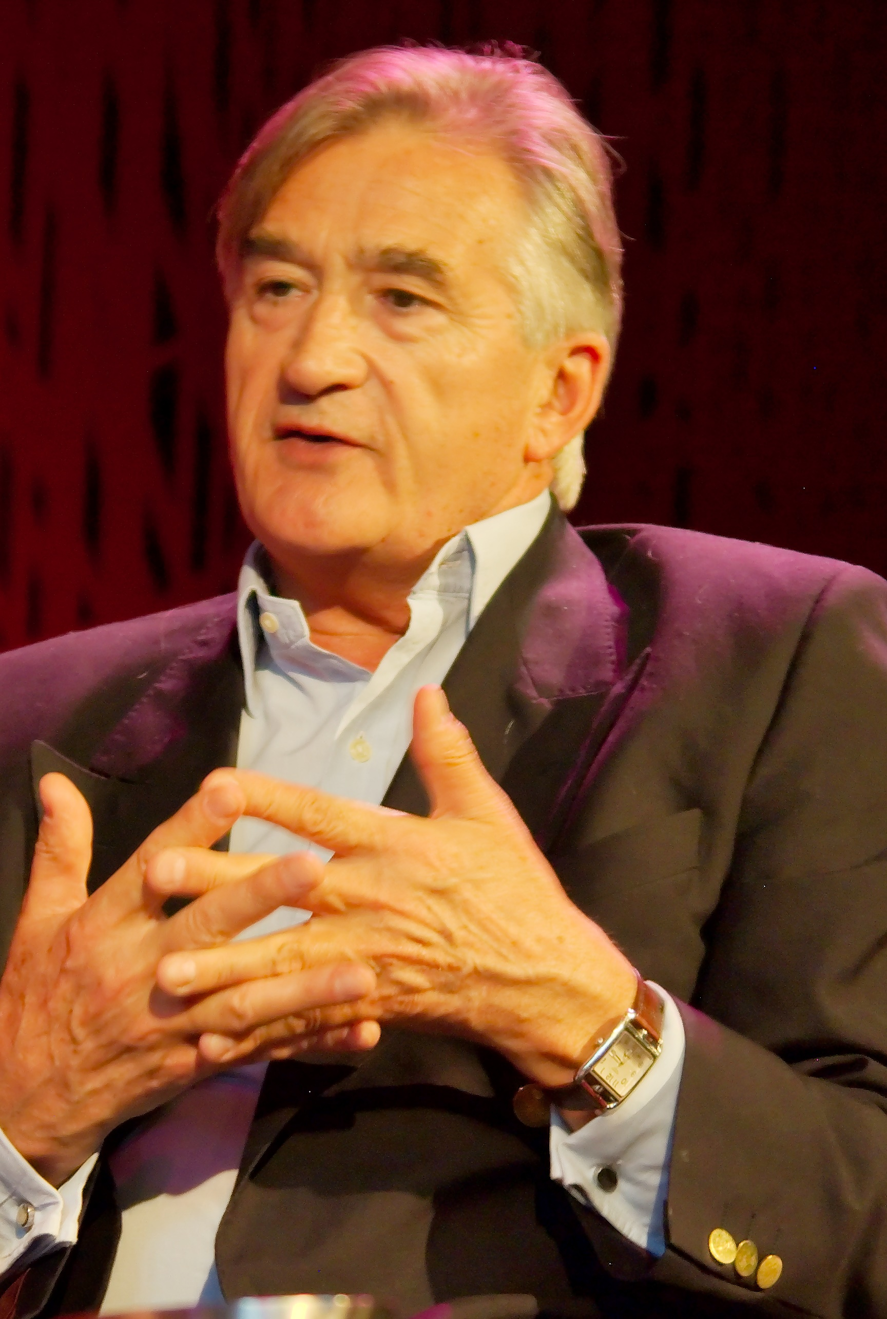 Antony Beevor in Litteraturhuset in Oslo, Norway ("Oslo Literature House").